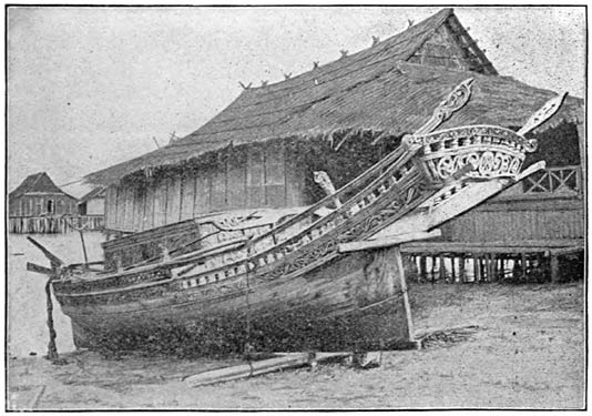 Old Moro Sailing Boat (A Bajau lepa houseboat)